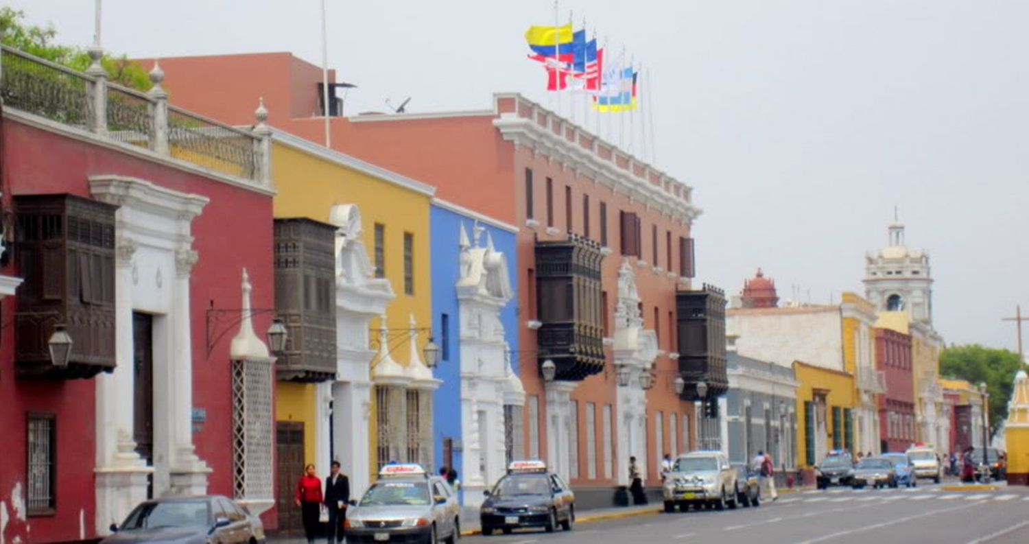 Independencia